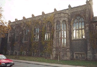 Burwash Hall of the University of Toronto viewed from Charles St.